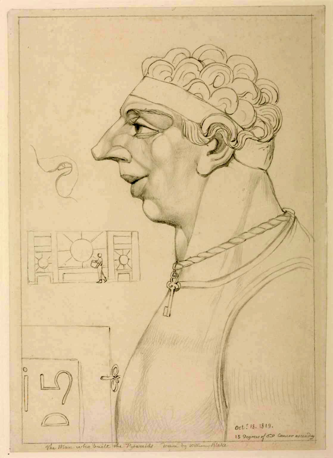 after William Blake The Man who Built the Pyramids (after William Blake) c1825 replica attributed to John Linnell contrast increased Artist Attributed to John Linnell (1792‑1882) Title The Man who Built the Pyramids (after William Blake) Datec.1825 MediumGraphite on paper Dimensionssupport: 298 x 214 mm Collection Tate AcquisitionBequeathed by Miss Alice G.E. Carthew 1940 Reference N05185 Not on display . . Display caption Linnell made a number of replicas of Blake's 'Visionary Heads'. Apparently he intended to engrave them for Varley's projected four-part 'Treatise on Zodiacal Physiognomy'. In fact only one part of the treatise was ever published, in 1828. However the inscription on this drawing, '15 Degrees of Cancer ascending', may well indicate that it was intended as one of the engraved plates in that work. As well as the main figure, the sheet contains a drawing of the architect's mouth open instead of shut (as in 'The Head of a Ghost of a Flea'), a sketch of the 'Egyptian' interior in which Blake saw him in his vision, and an architect's portfolio inscribed with hieroglyphics.